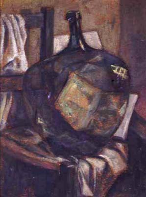 Herminia Arrate: Naturaleza Muerta (1930)